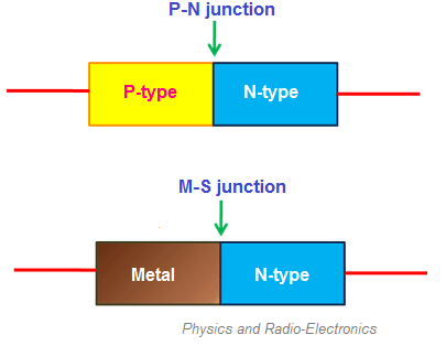 pn and ms junction differences